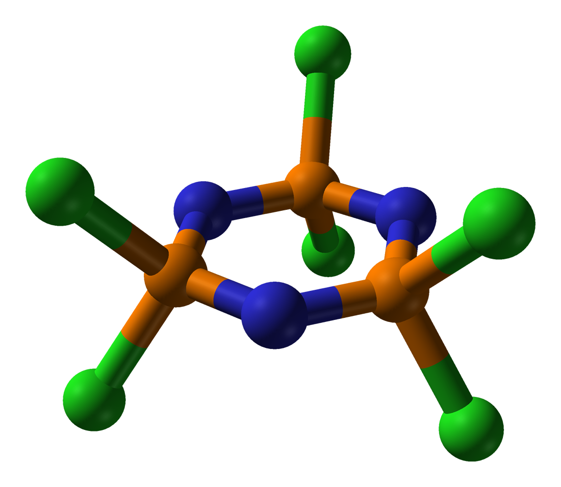 Ball-and-stick model of the hexachlorophosphazene molecule, cyclo-(PNCl2)3 i.e. N3Cl6P3, as found in the solid state. X-ray diffraction data from Acta Cryst. (2006) B62, 321-329. Model constructed in CrystalMaker 8.1. Image generated in Accelrys DS Visualizer.